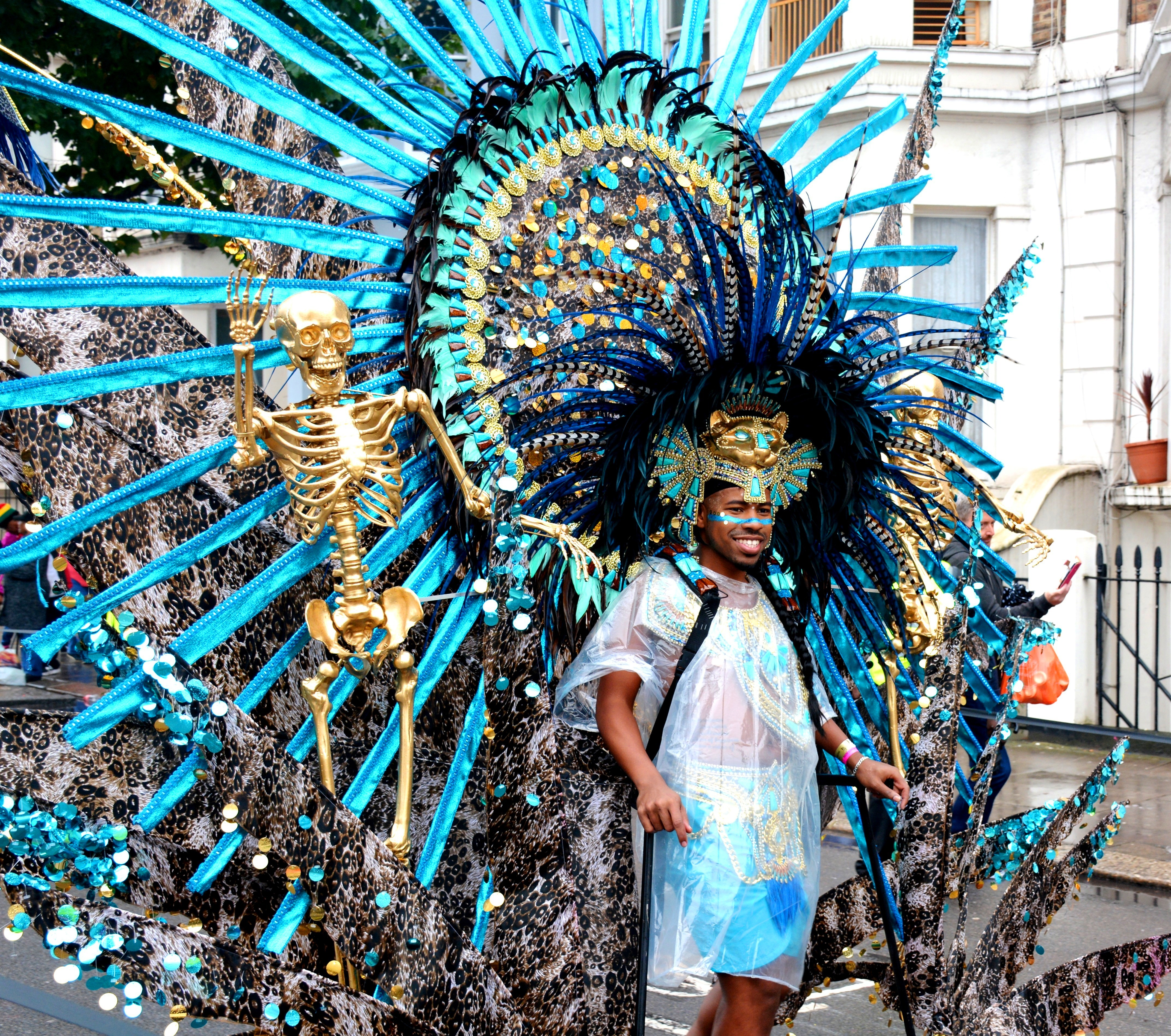 Notting Hill Carnival 2015, London, U.K.